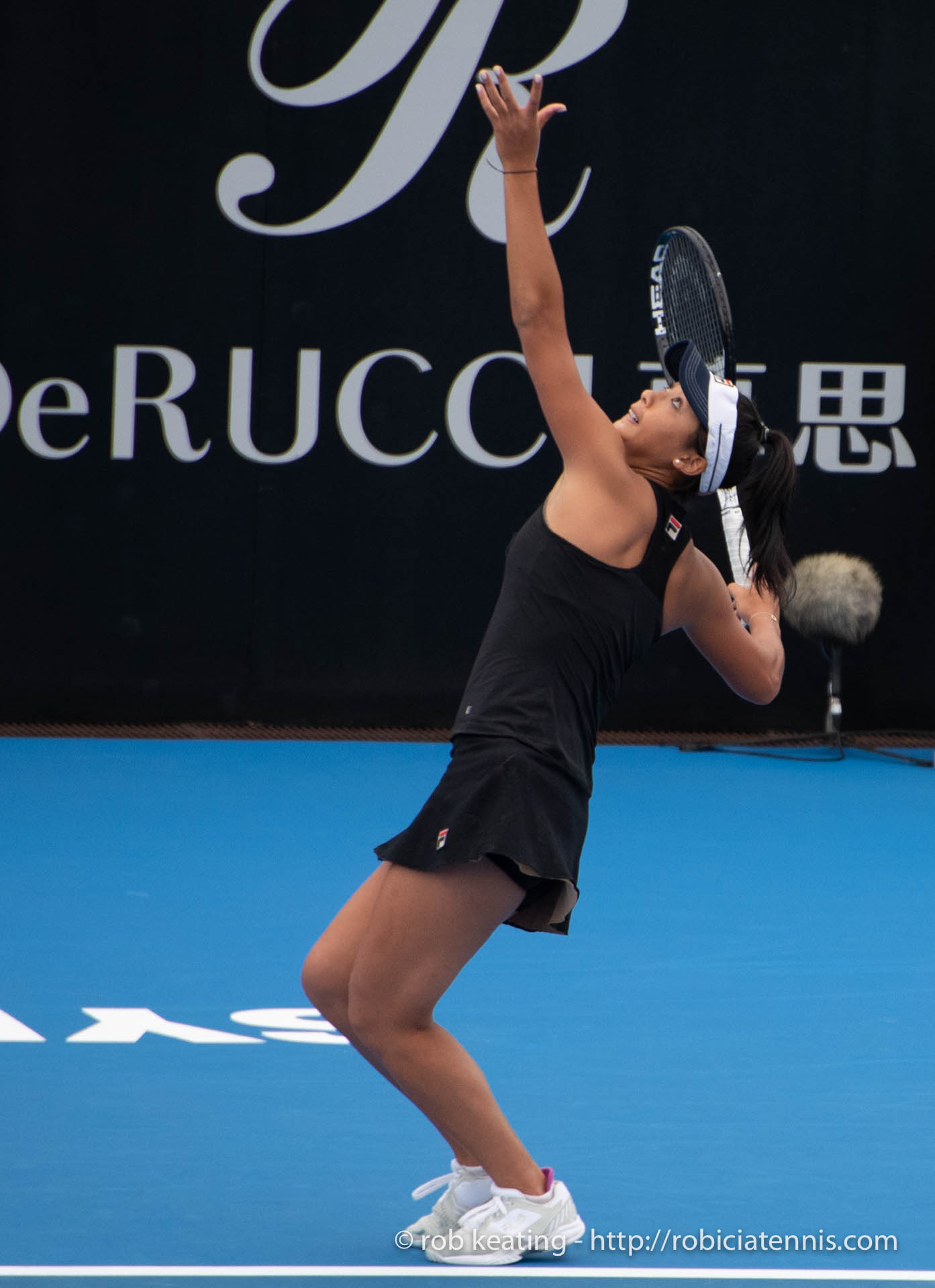 Sydney, Australia - 6 January 2018: Australia's Priscilla Hon serving to Australia's Kimberly Birrell in a qualifying match for the Sydney International. (Photo by Rob Keating/robiciatennis.com)